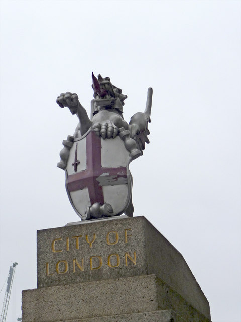 City of London Sign Welcome to the City of London sign on the approaches to London Bridge in Southwark.